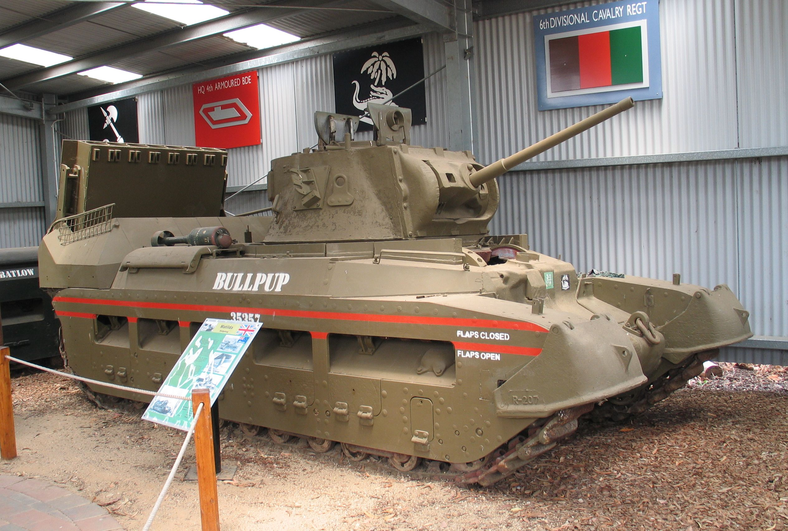 Infantry Tank Mk II Matilda in the Matilda Hedgehog variant in Royal Australian Armoured Corps Tank Museum, Puckapunyal, Victoria, Australia.